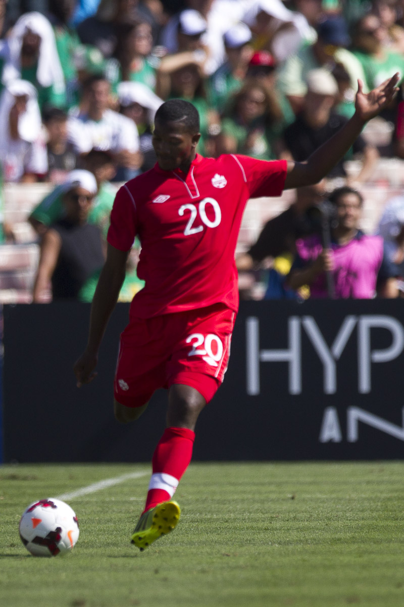 Shot of Canadian National Team player Doneil Henry at the 2013 Gold Cup